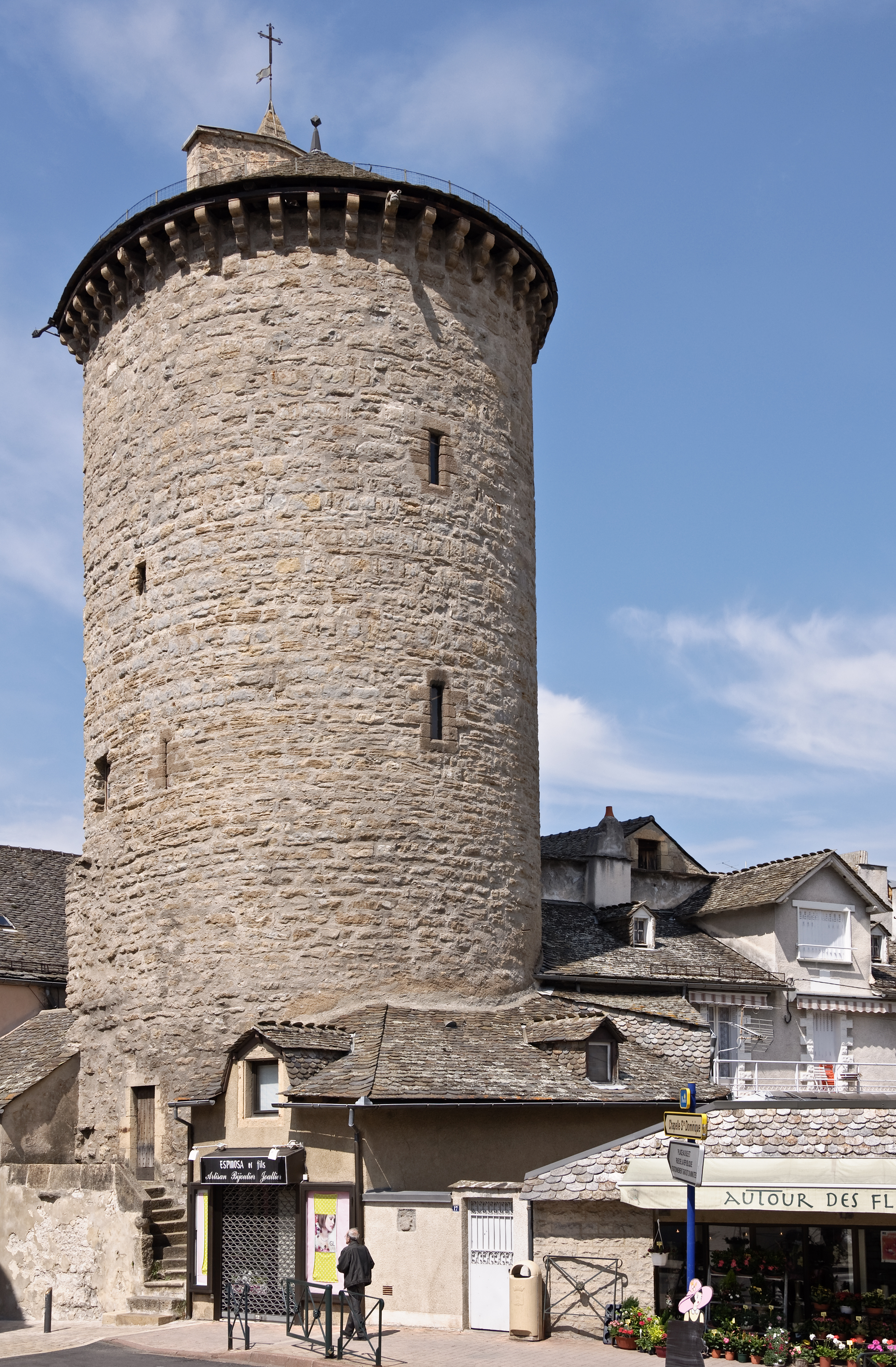 The Tour des Pénitents (Penitents Tower) in Mende, Lozère, France, remains of the former medieval city walls.